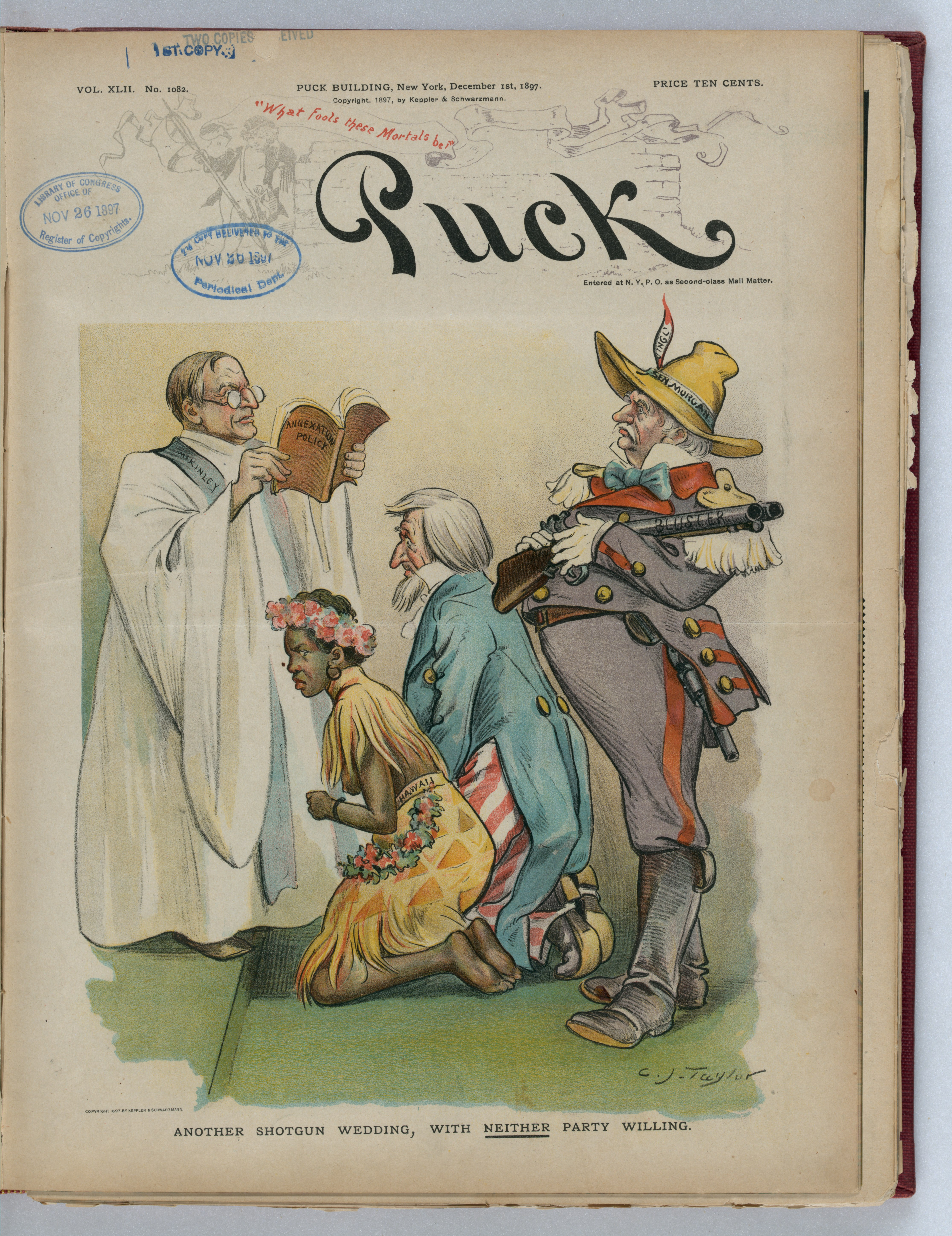 Title: Another shotgun wedding, with neither party willing / C.J. Taylor. Abstract/medium: 1 print : chromolithograph.